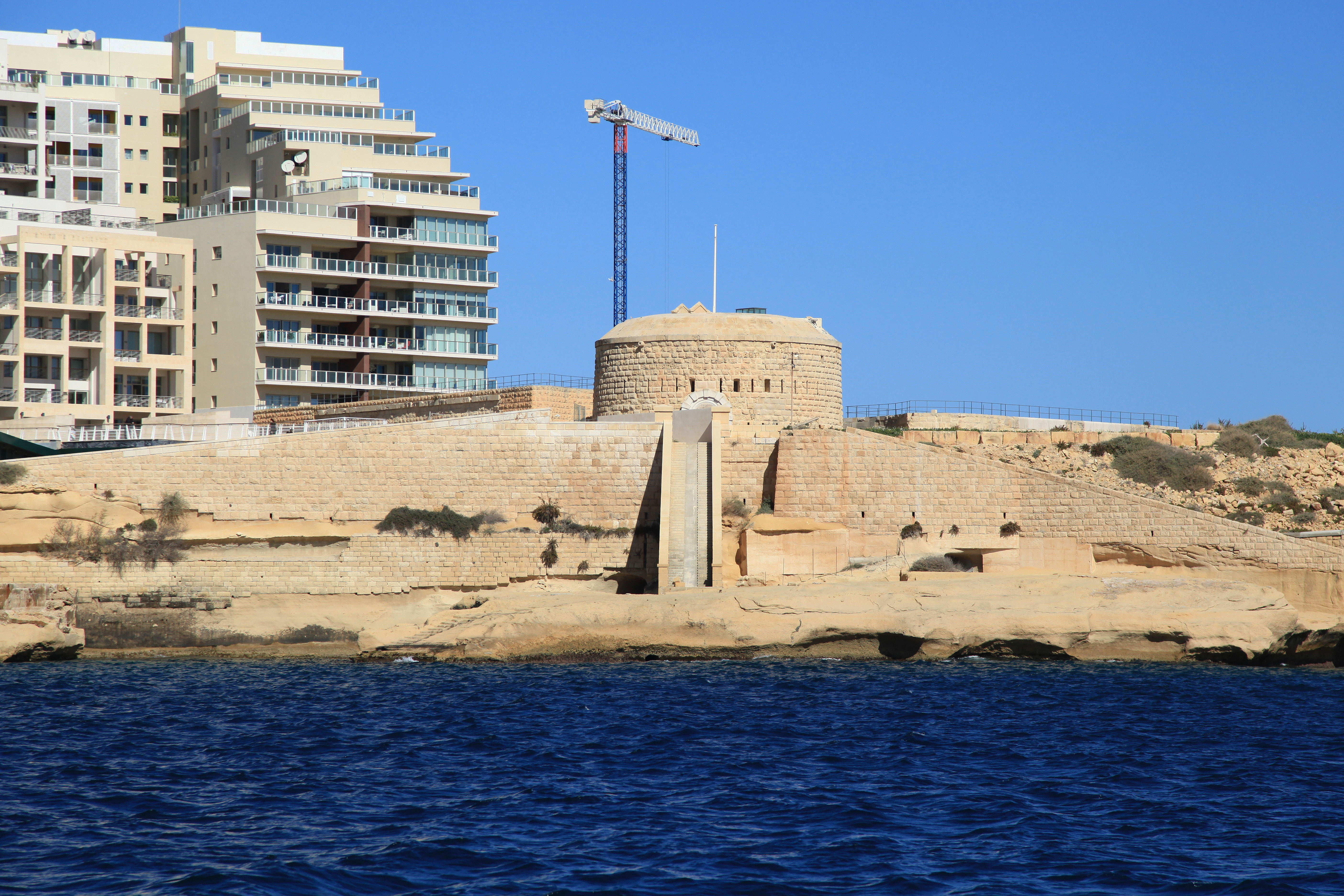 View from a Malta sightseeing two harbours cruise boat to Fort Tigné in Sliema, Malta